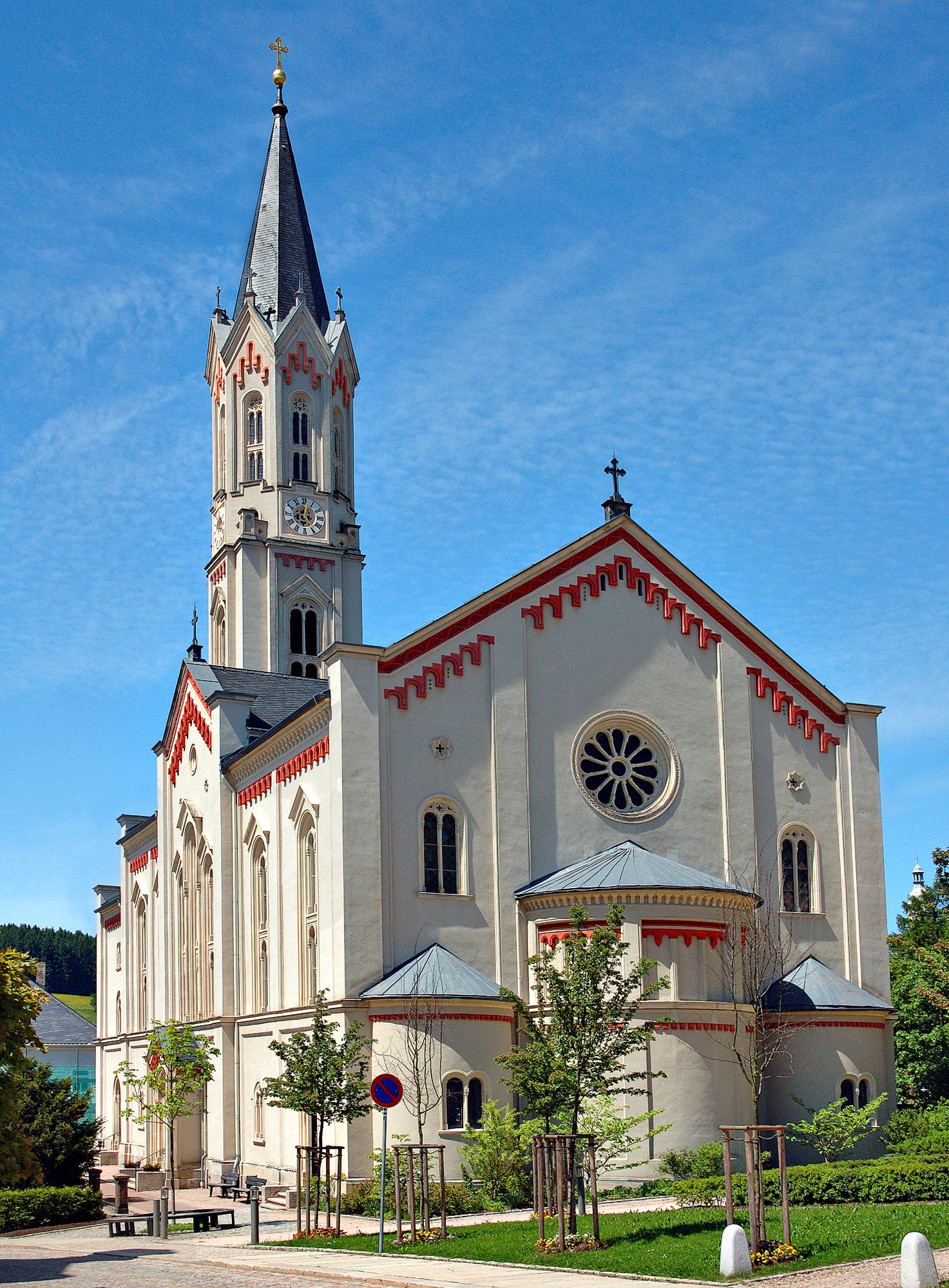 This image shows church in Eibenstock (Saxony, Germany).